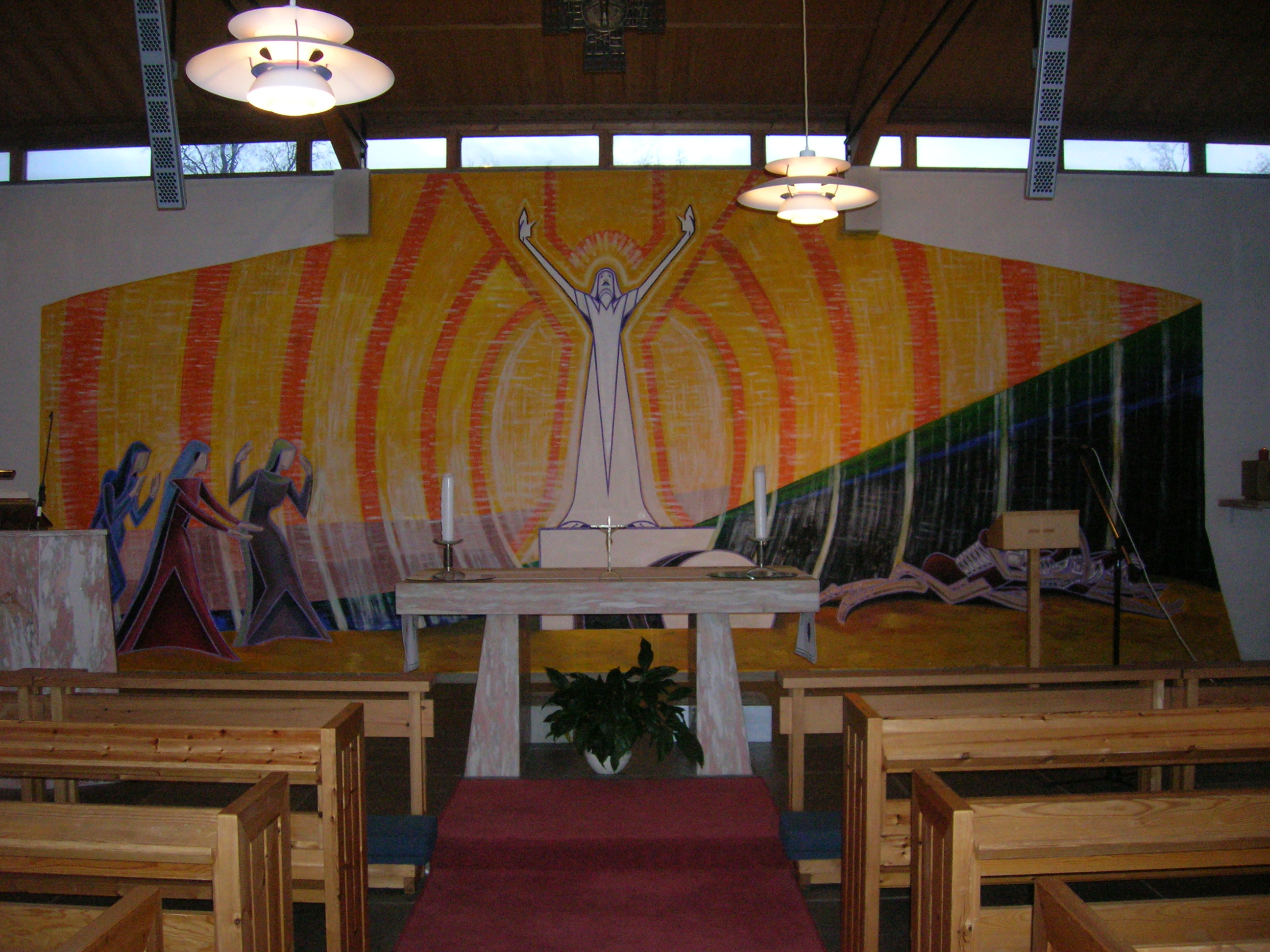 The altarpiece of the Church of Selfors (The church of our Redeemer), Rana municipality, Norway. Painted by the english artist Everild Feeny (born 15 March, 1911 in Merseyside, Liverpool) in April 1971.